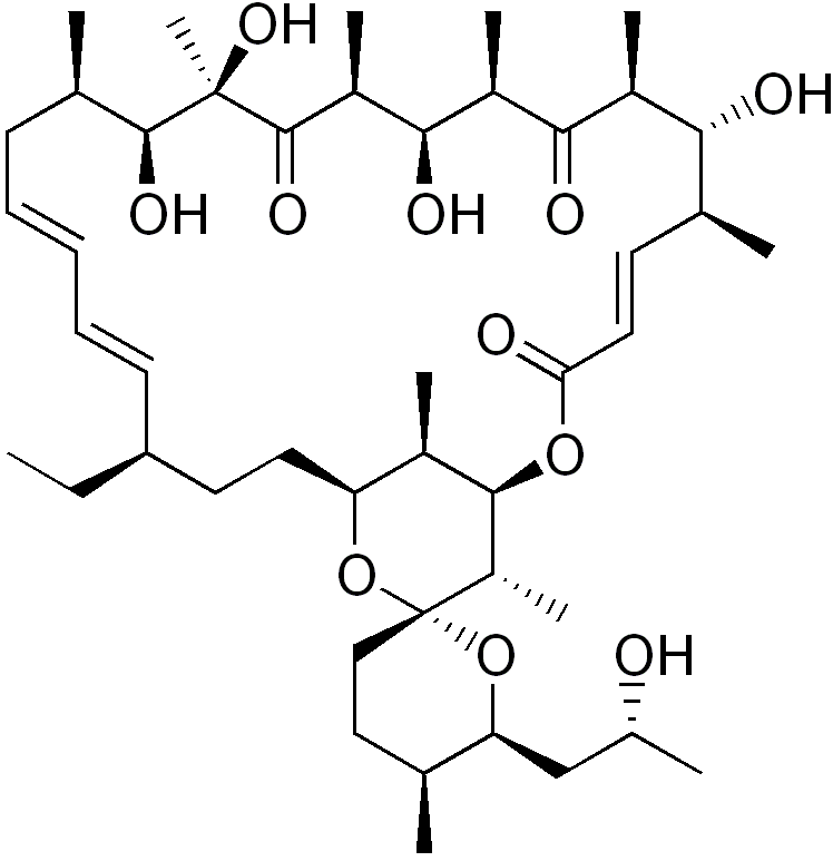 Chemical structure of oligomycin A created with ChemDraw. Based on:Nakata, M., et al., Bull. Chem. Soc. Jpn., 68, 967-989 (1995)Wagenaar, M.M., et al., J. Nat. Prod., 70, 367-371 (2007)